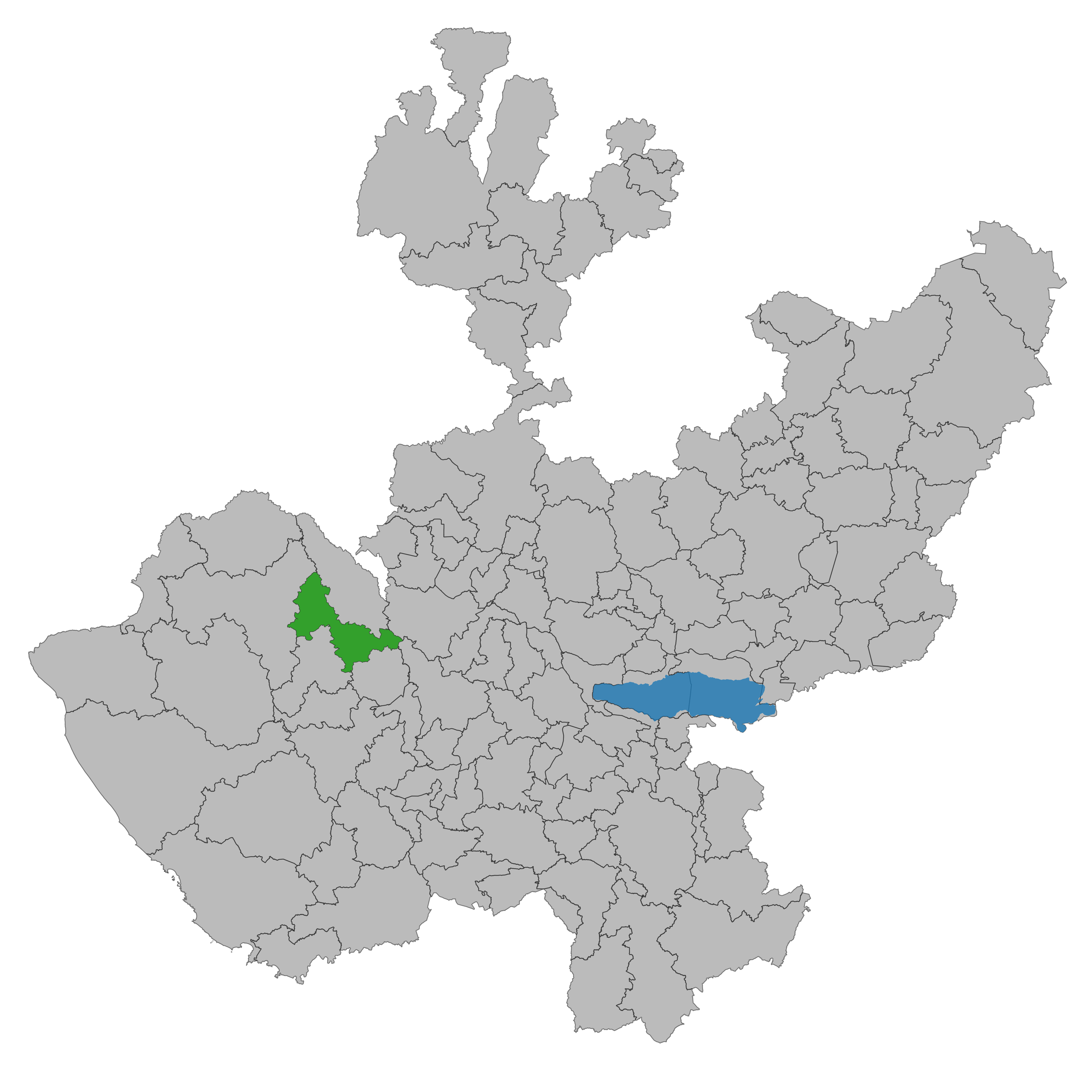 Municipality of Jalisco. Prepared with the software QGIS version 2.8.2 Wien & with information of SCINCE 2010 version 05/2013